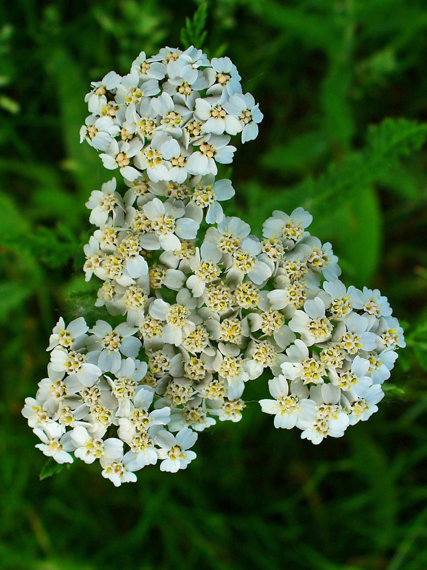 Achillea millefolium, Asteraceae, Yarrow, Gordaldo, Nosebleed Plant, Old Man's Pepper, Devil's Nettle, Sanguinary, Milfoil, Soldier's Woundwort, Thousand-leaf, inflorescence; Karlsruhe, Germany. The aerial parts of the blooming plants are used in homeopathy as remedy: Millefolium (Mill.)